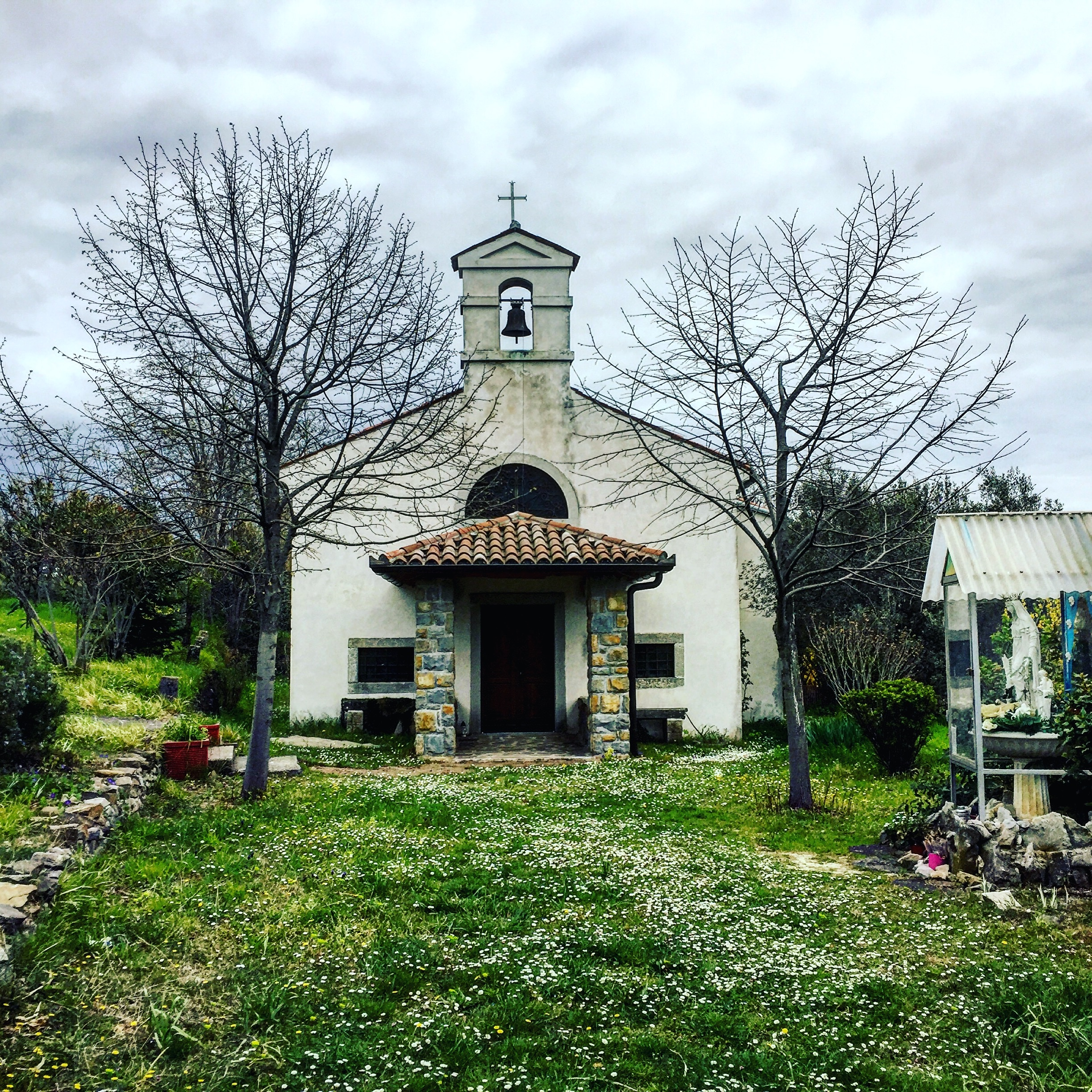 Jagodje.